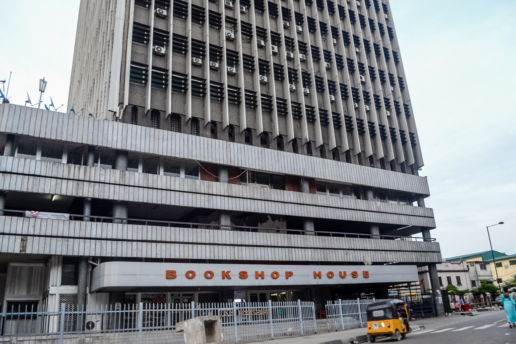 Book shop House, Lagos Island